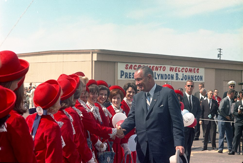 President Lyndon B. Johnson on the campaign trail in Sacramento, California in autumn of 1964